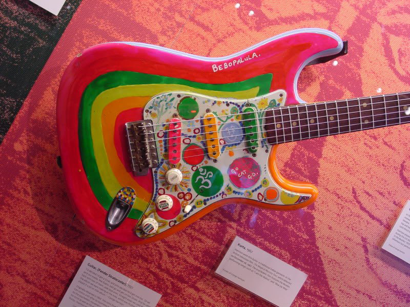 Rocky esposta al Grammy Museum di Los Angeles